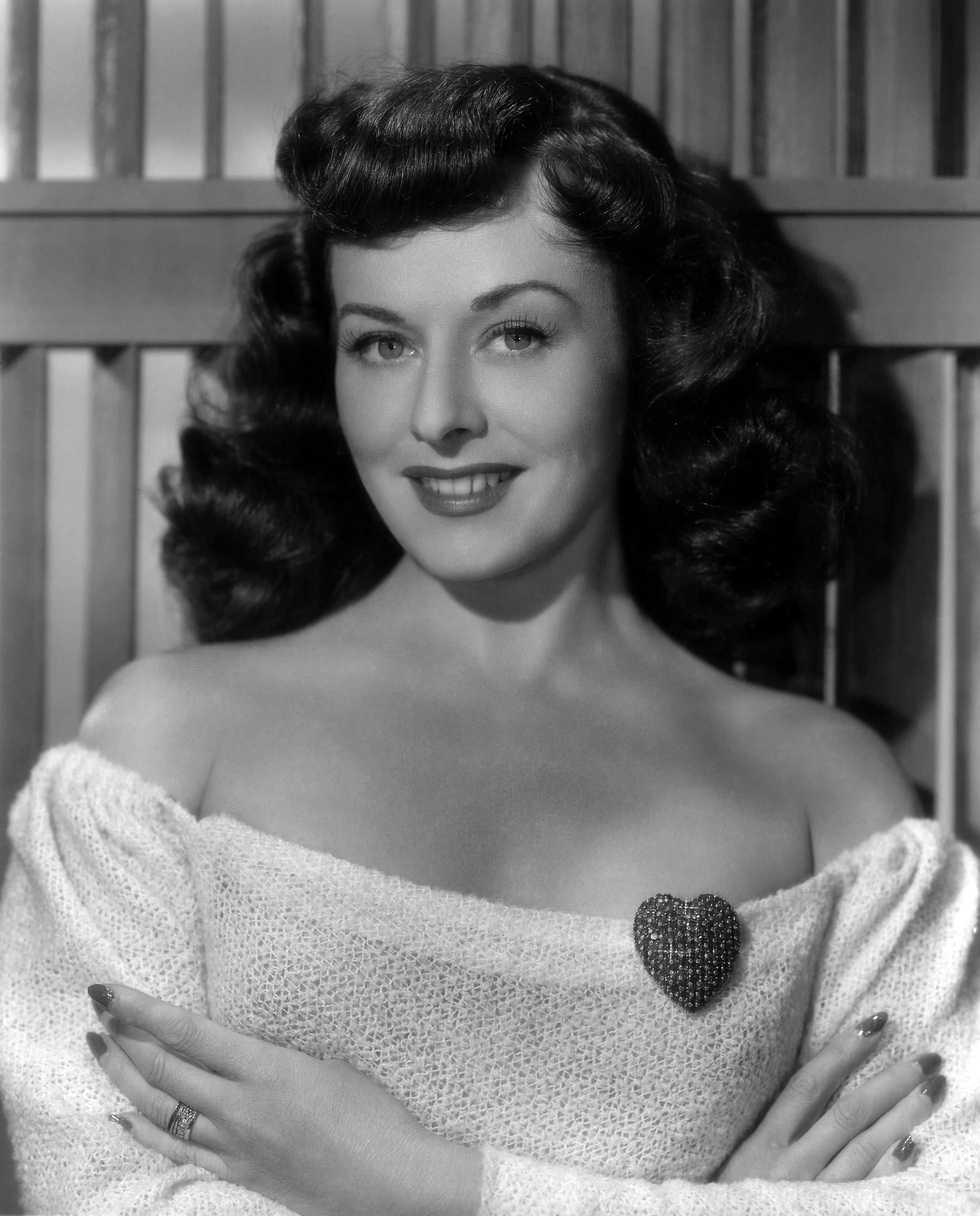 Goddard in the 1940s